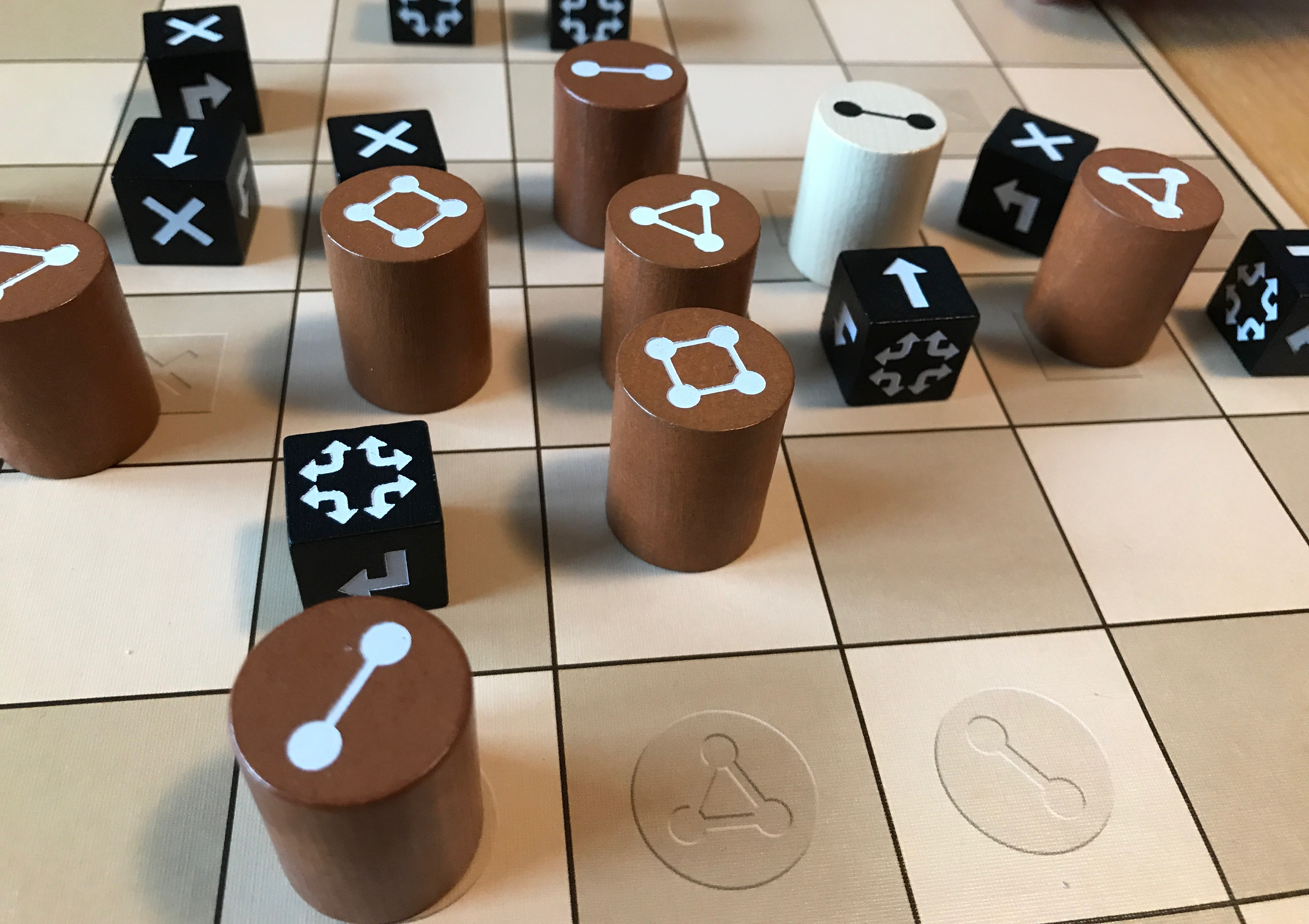 set of the board game Barragoon